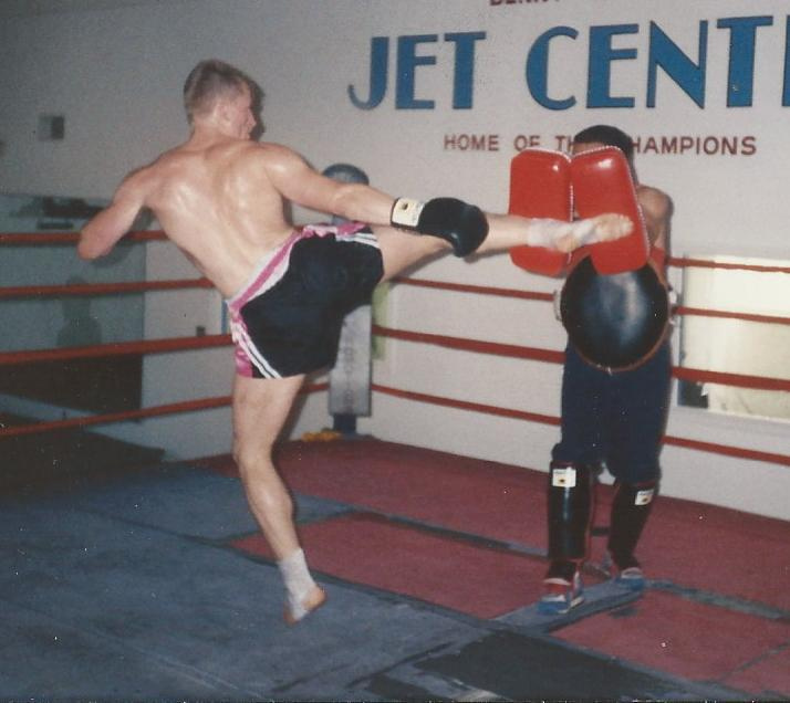 Typical gear for Muay Thai-pads-training. Forearm pads for hard kicking, punching, elbow strikes; abdomen shield for knee strikes and push kicks; shin guards to encourage blocking of counter kicks. Pad training is to develop striking and clinching skills as well as for overall conditioning.